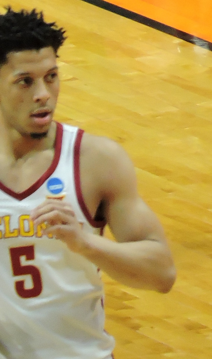 Ohio State Head Coach Chris Holtmann on the sideline at the BOK Center in Tulsa, Oklahoma during the 2019 NCAA Basketball Tournament.